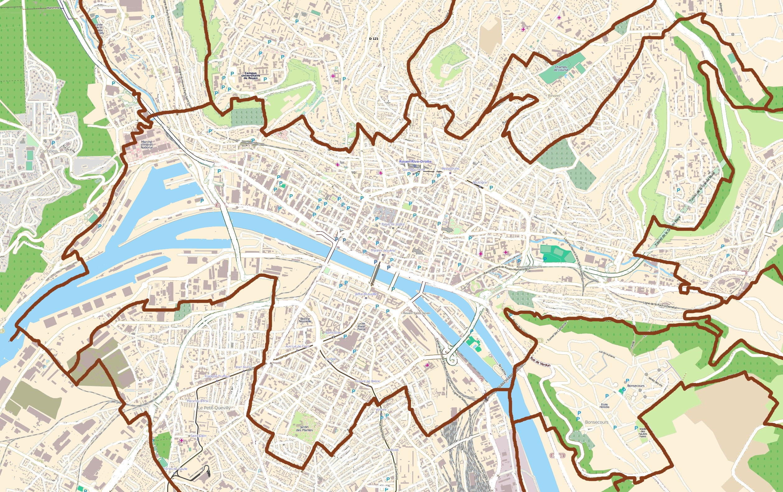 Map of Rouen, France